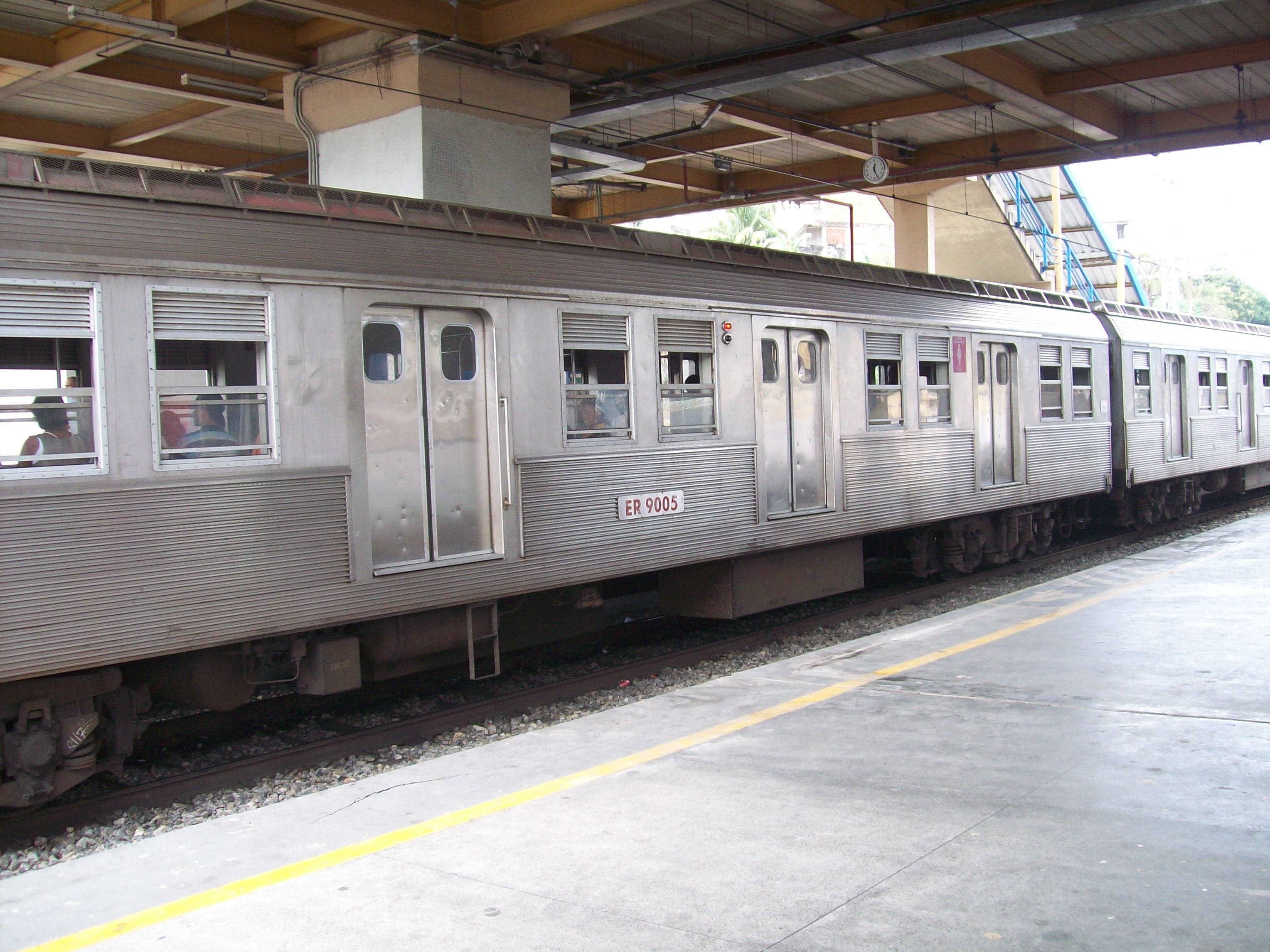 Supervia train in Cascadura.